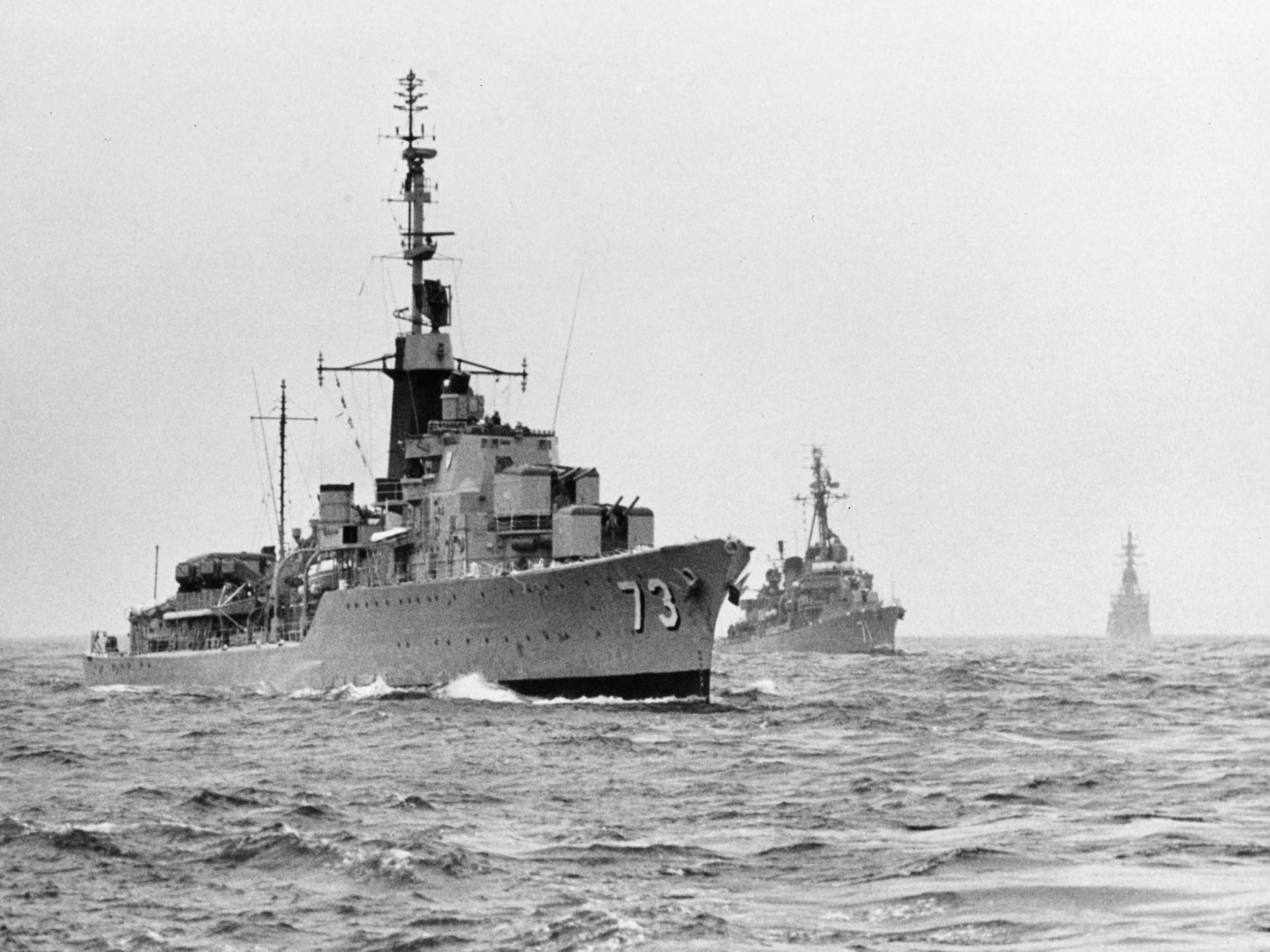 The Peruvian destroyer BAP Palacios (DM-73), ex-HMS Diana (D126), underway during exercise "Unitas XIV" off the South American coast in September 1973. In the middle background is the Peruvian destroyer BAP Villar (DM-71), ex-USS Benham (DD-796).